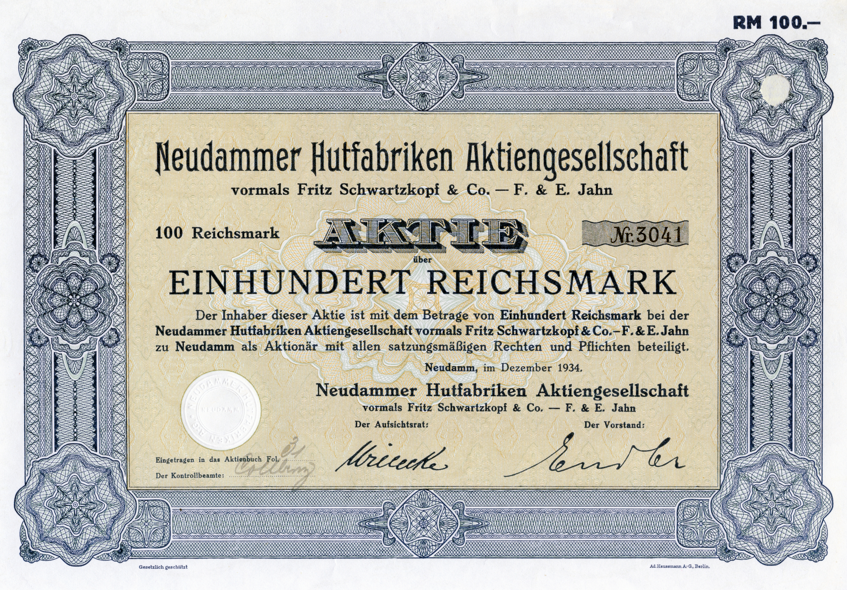 Stock certificate of Neudammer Hutfabriken Aktiengesellschaft from Dębno (Neudamm)